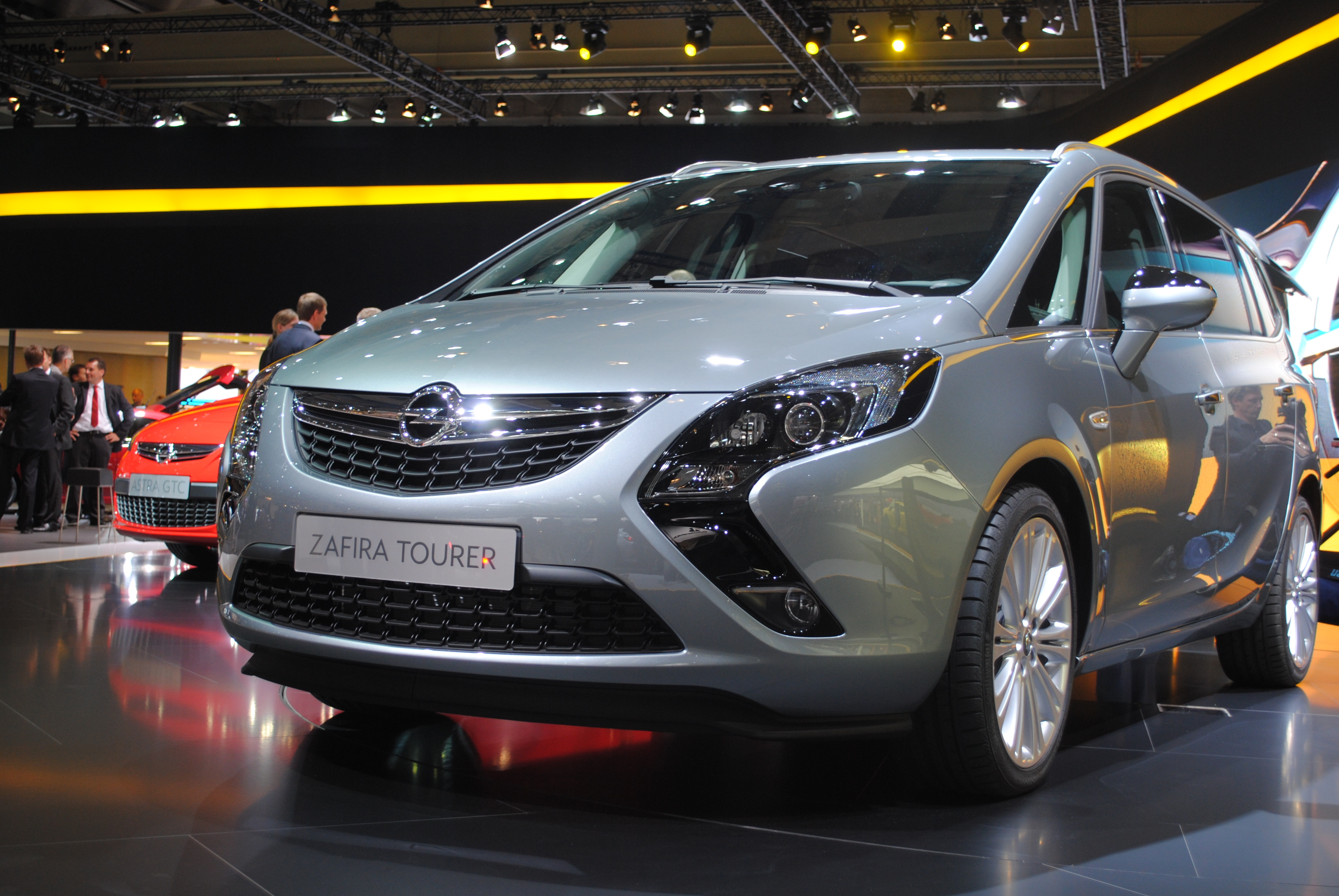 For more info + pics, check